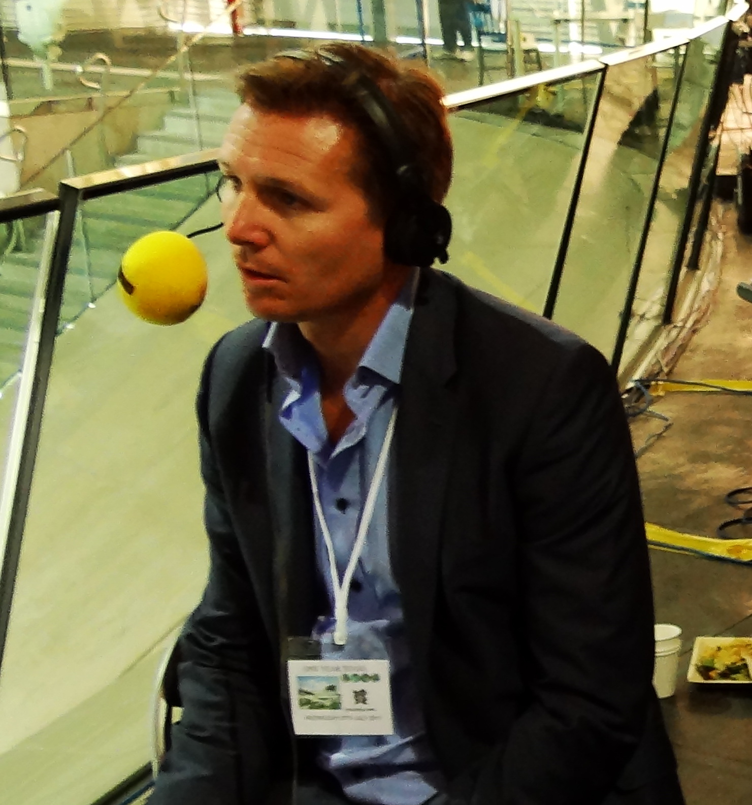 Roger Black commenting on the unveiling of the London Aquatics Centre in July 2011.